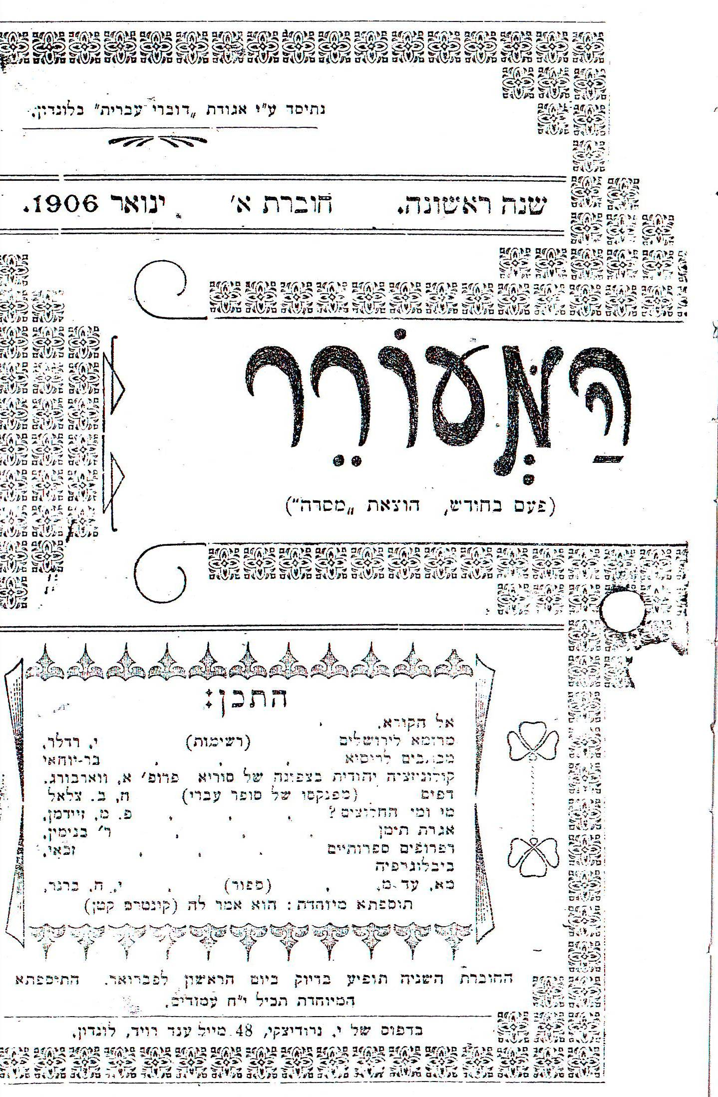 The journal "HaMeorer" by Y.H. Brener